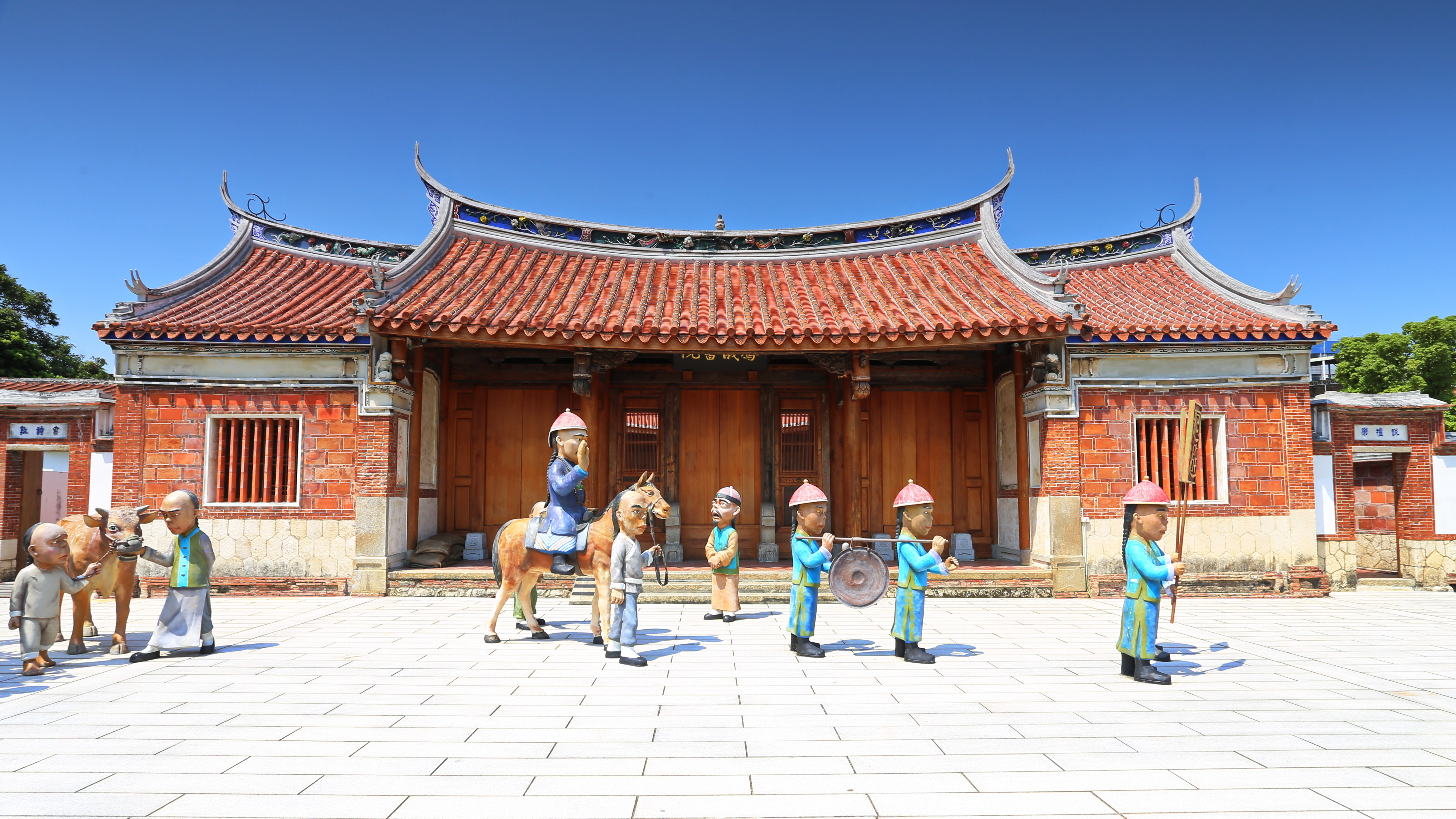 The front square of the Fongyi Tutorial Academy, Fongshan District, Kaohsiung City, Taiwan.